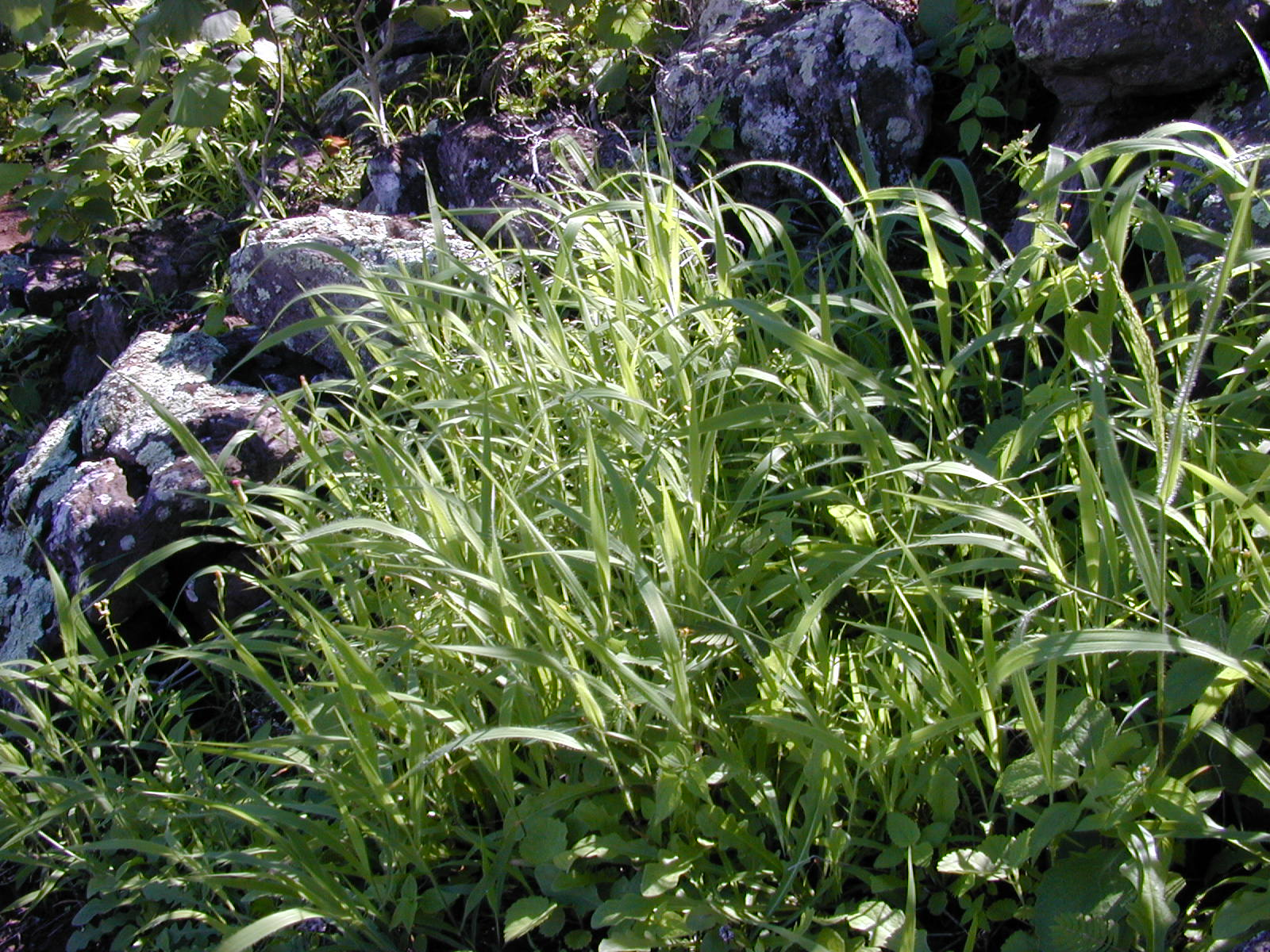 Panicum xerophilum (habit). Location: Maui, NHPS Hibiscus brackenridgei excl Waikapu